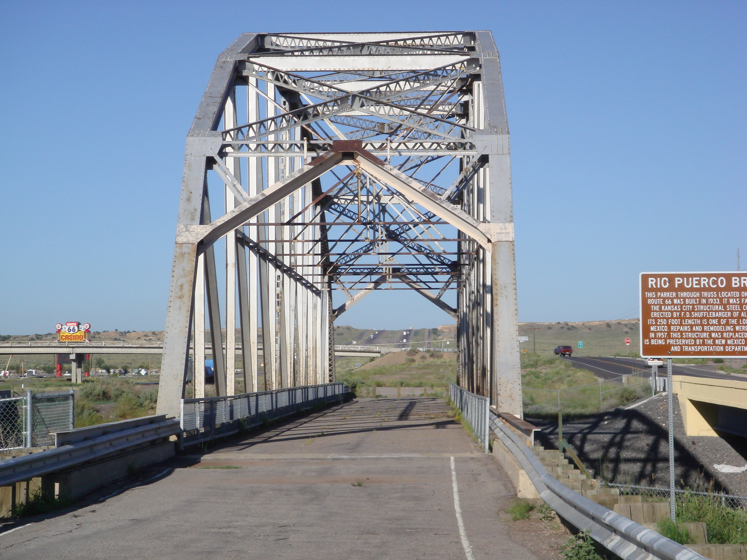 Rio Puerco Bridge — abandoned bridge of U.S. Route 66, in Bernalillo County, New Mexico.